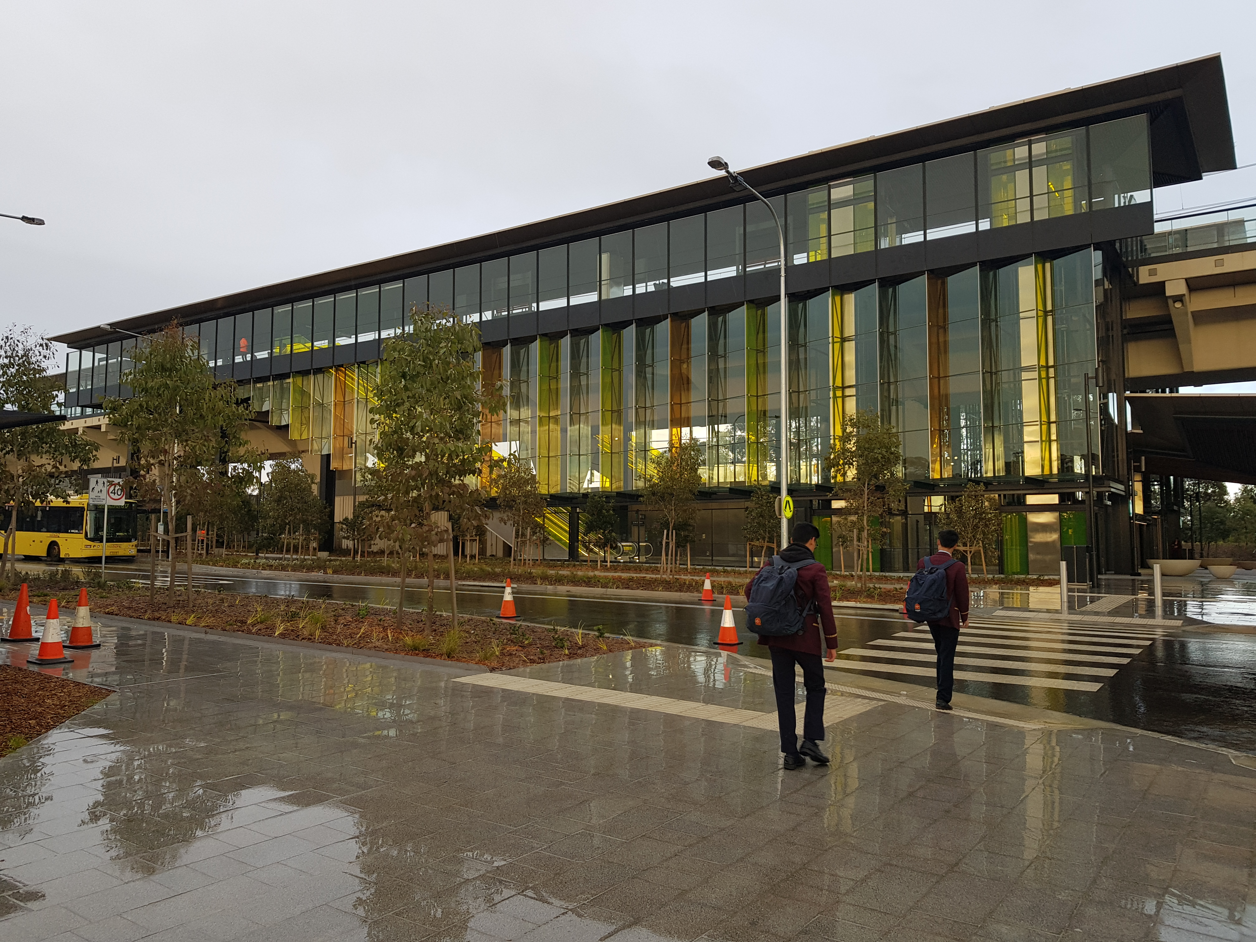 Kellyville railway station 3